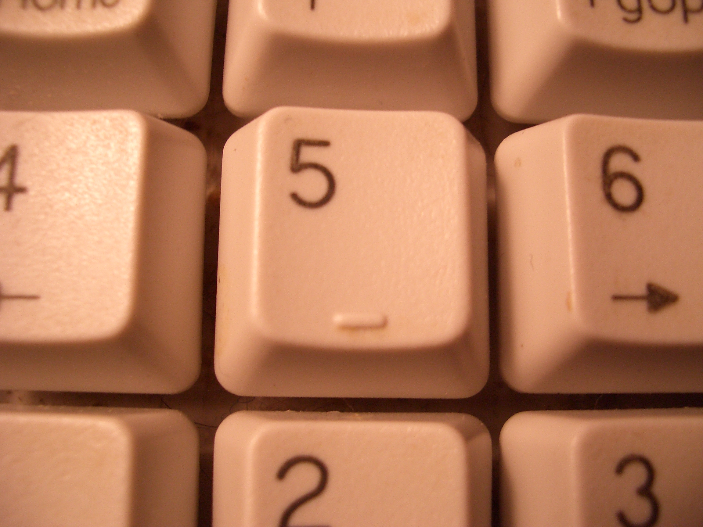 Close up photo of the "5" key on my keyboard's numeric keypad, showing the raised bar on the key.